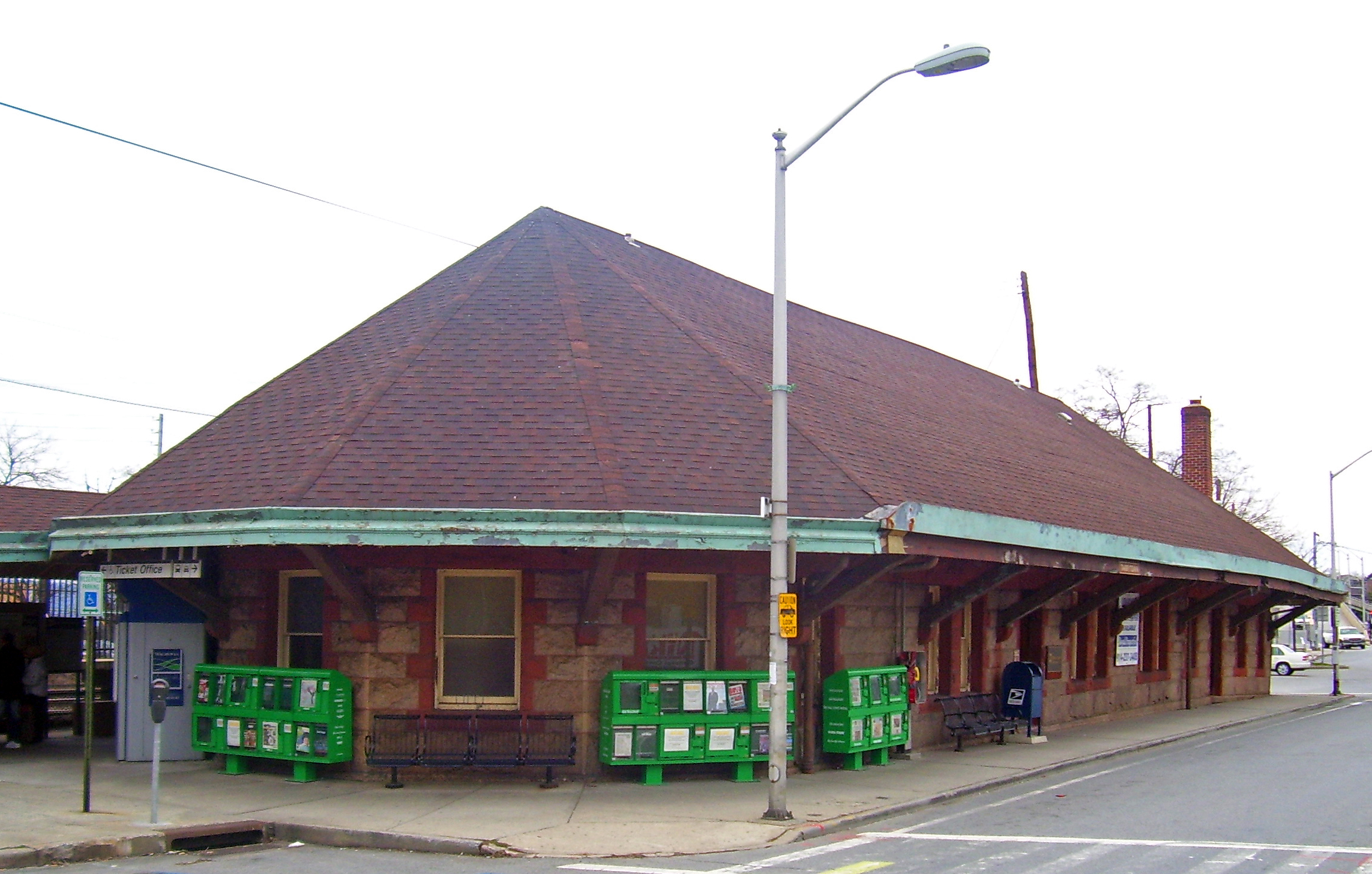 Original train station building, built by New York Central Railroad, at Metro-North train station in Tarrytown, NY, USA